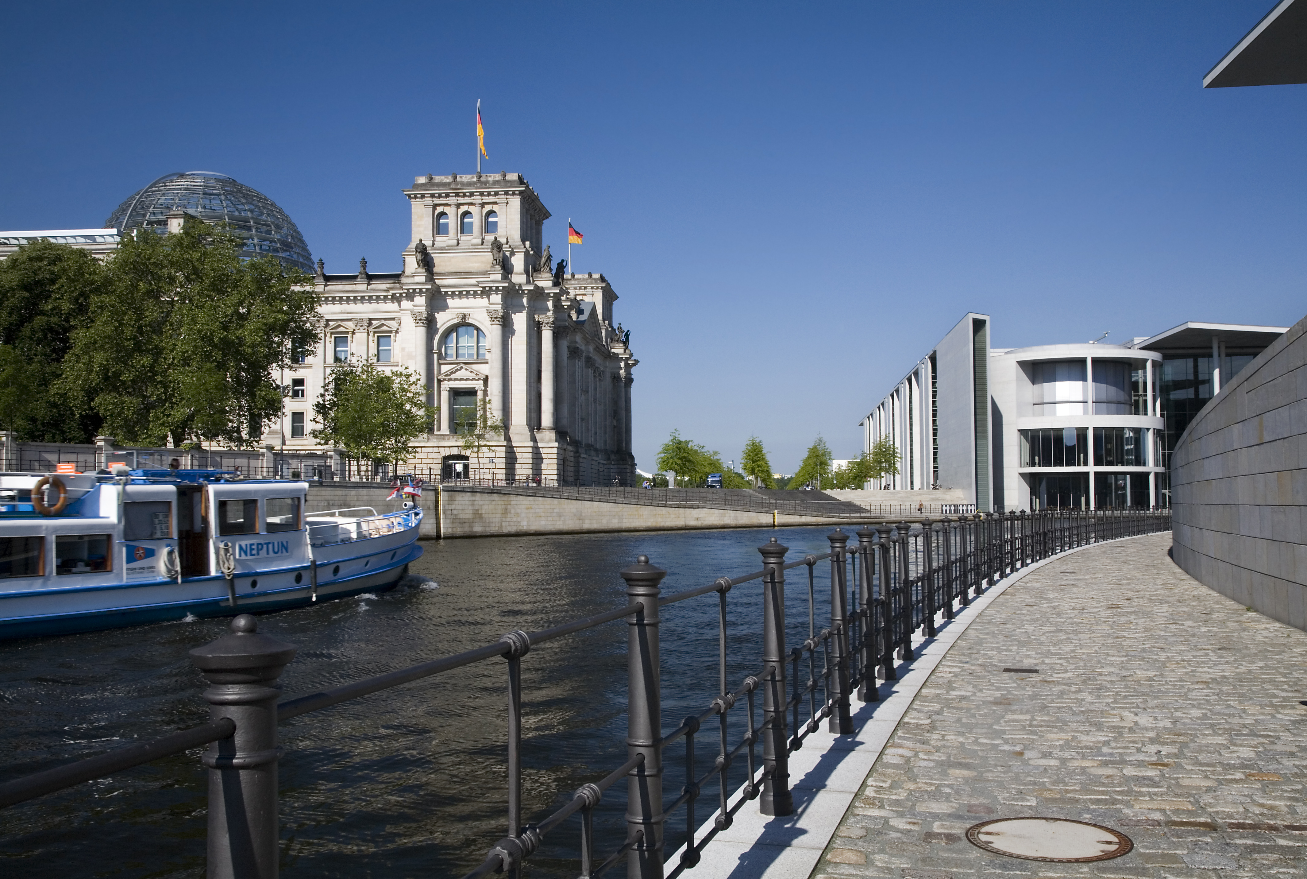 Bundestag by the Spree. Paul Löbe and Marie-Elisabeth Lüders House in the German Government Buildings, near the Reichstag. Platz